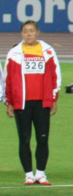 World Athletics Championships 2007 in Osaka - Ma Xuejun